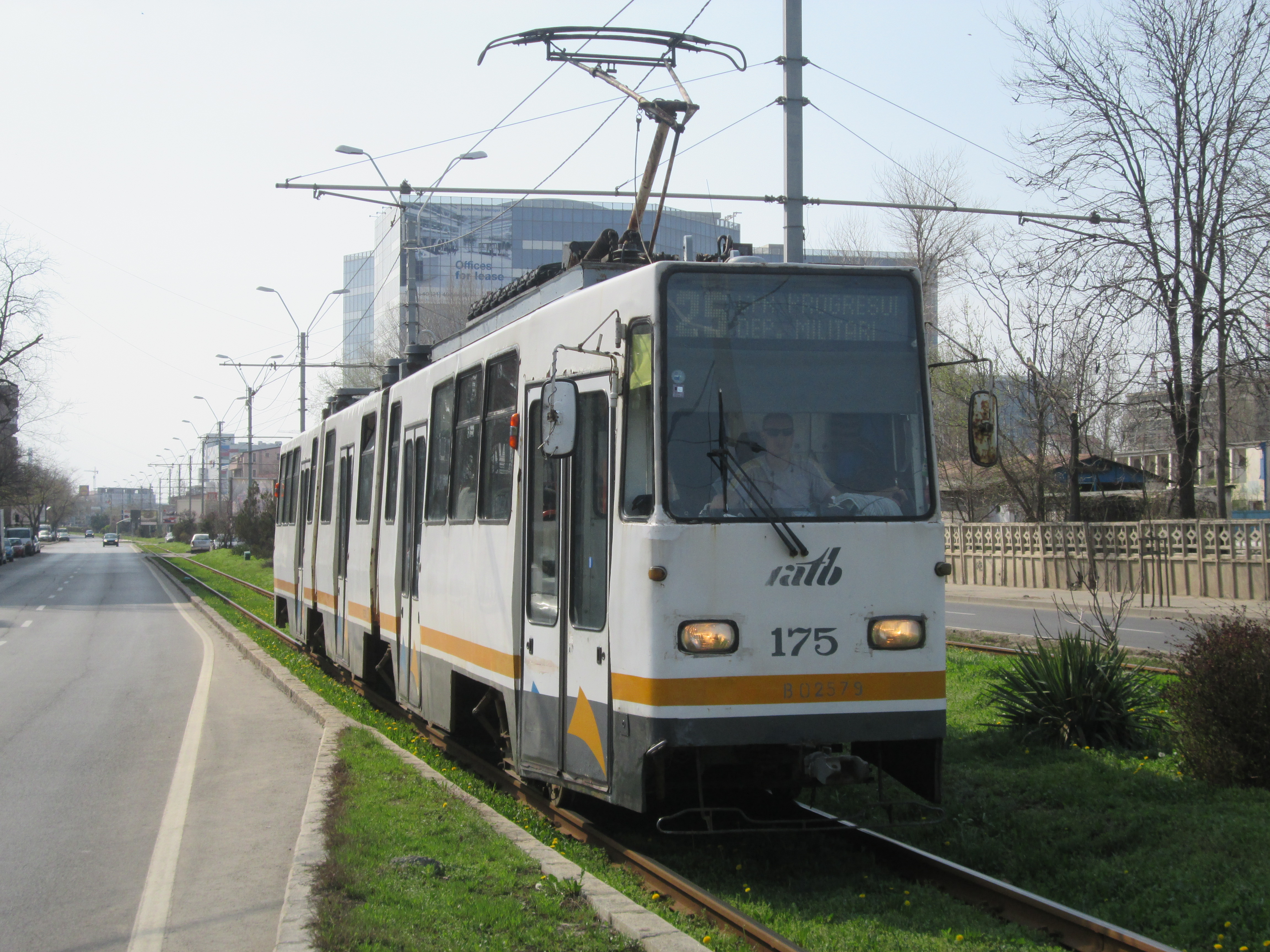 Tram number 175 (type V3A) running on Timisoara Boulevard, on line 25.